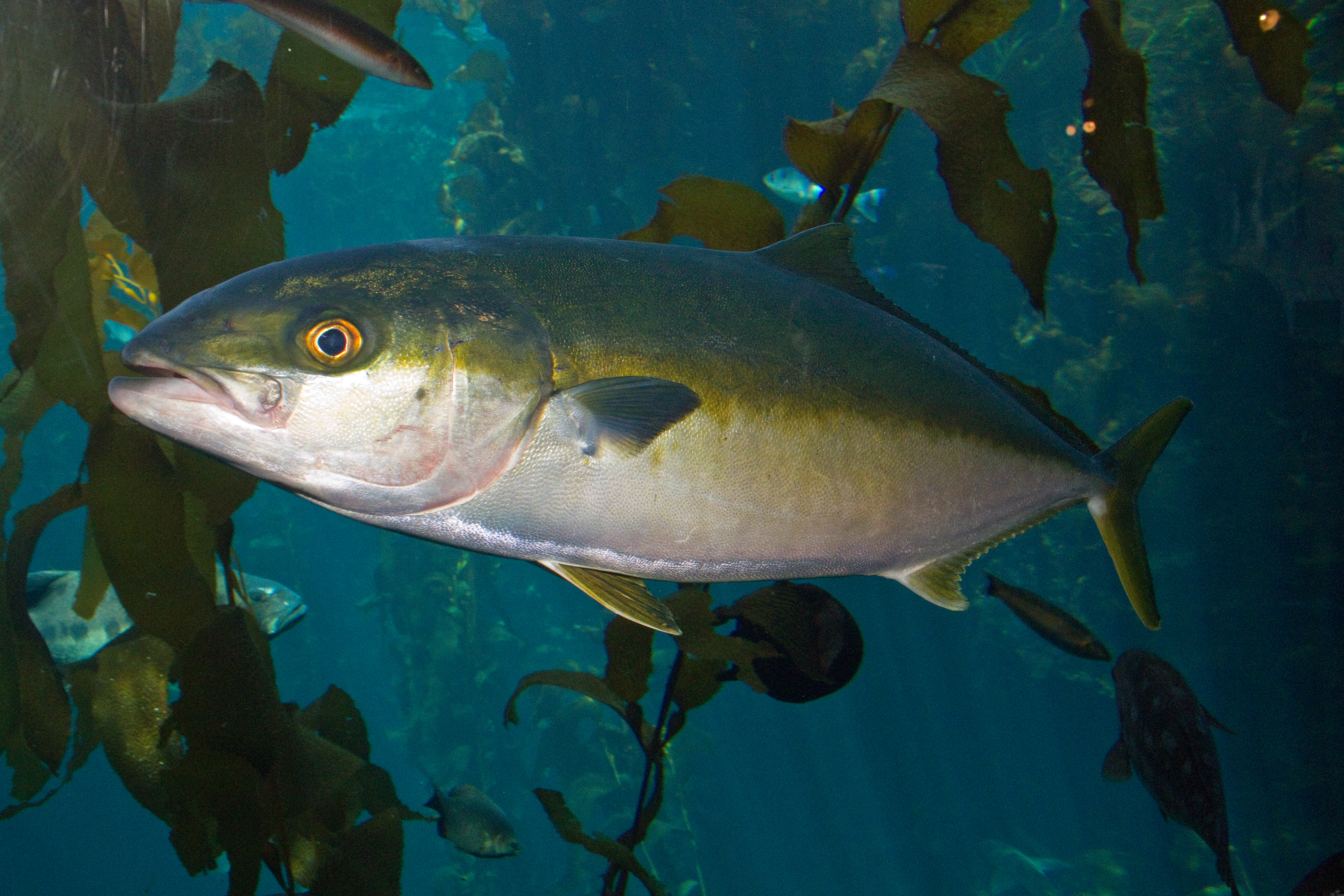 Yellowtail amberjack (Seriola lalandi) taken at California, U.S.A.